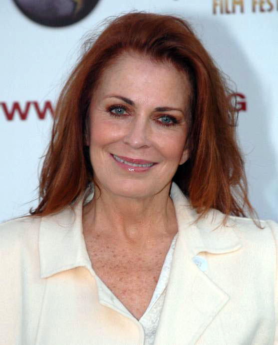 Joanna Cassidy at the 2007 Jules Verne Adventure Film Special Awards Presentation